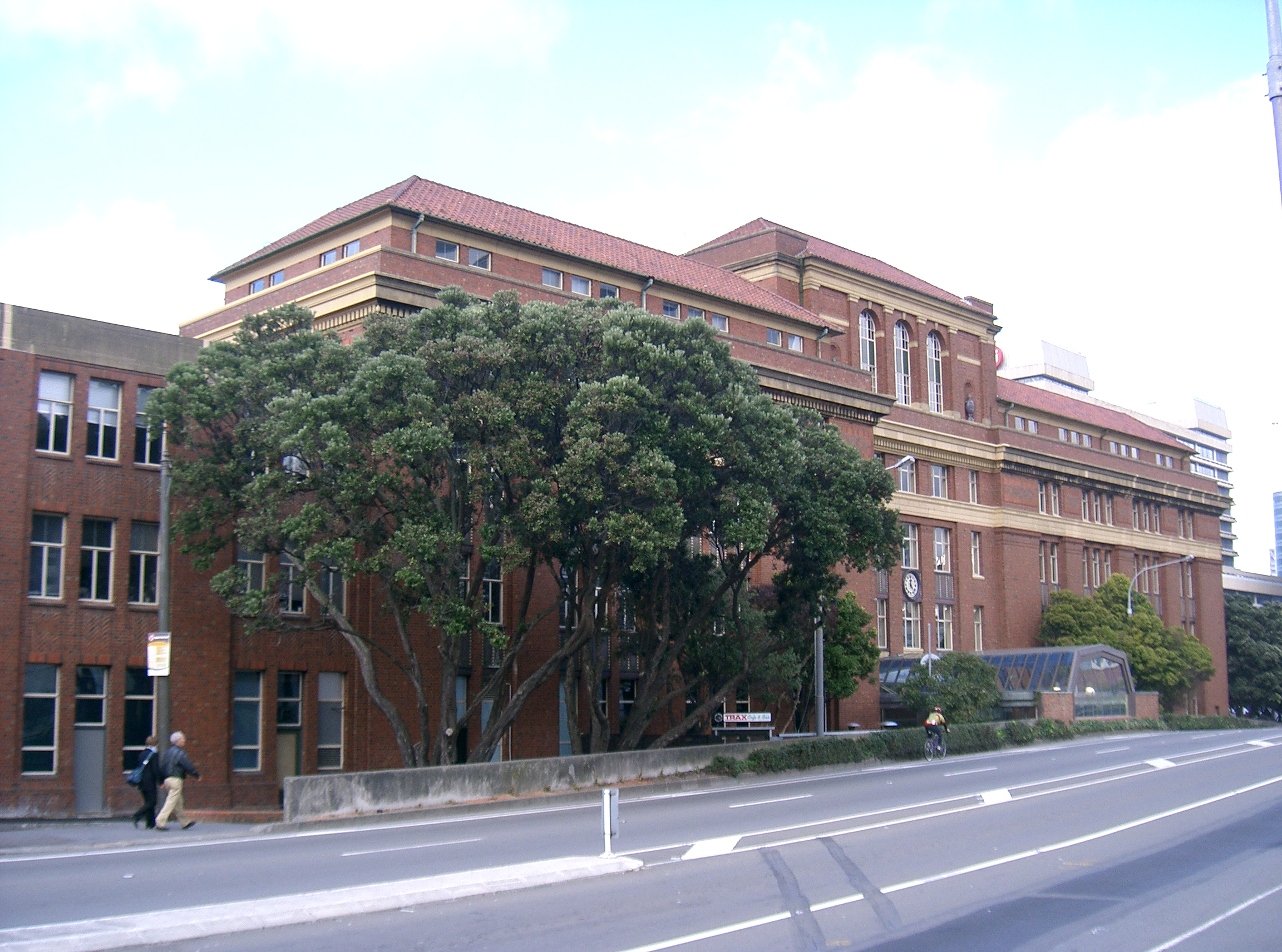 Wellington Railway Station, west wing. Wellington, New Zealand